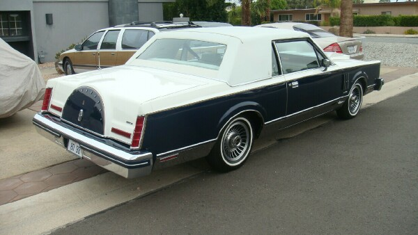 80 Mark VI Bill Blass